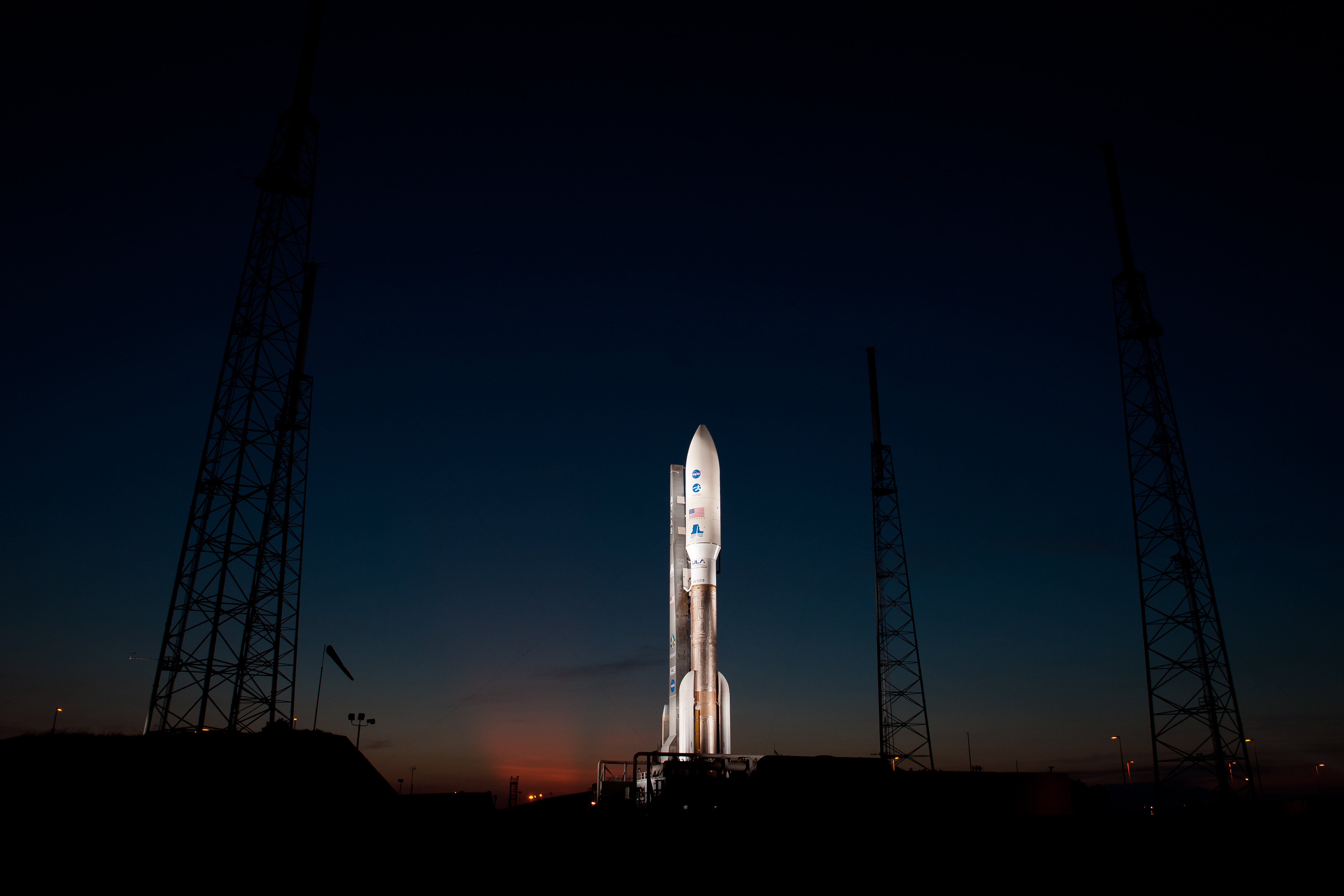 An Atlas V rocket with NASA's Juno spacecraft payload is seen the evening before it's planned launch at Space Launch Complex 41 of the Cape Canaveral Air Force Station in Florida on Thursday, August 4, 2011. The Juno spacecraft will make a five-year, 400-million-mile voyage to Jupiter, orbit the planet, investigate its origin and evolution with eight instruments to probe its internal structure and gravity field, measure water and ammonia in its atmosphere, map its powerful magnetic field and observe its intense auroras. Photo Credit: (NASA/Bill Ingalls)